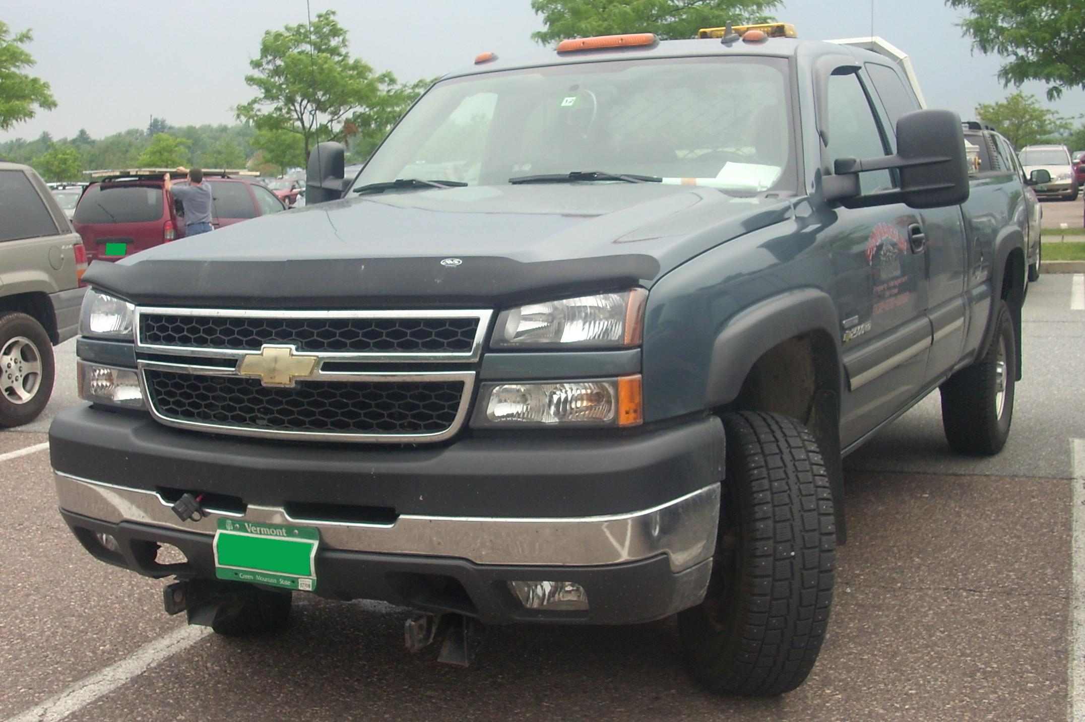 2006 Chevrolet Silverado photographed in Williston, Vermont, USA.